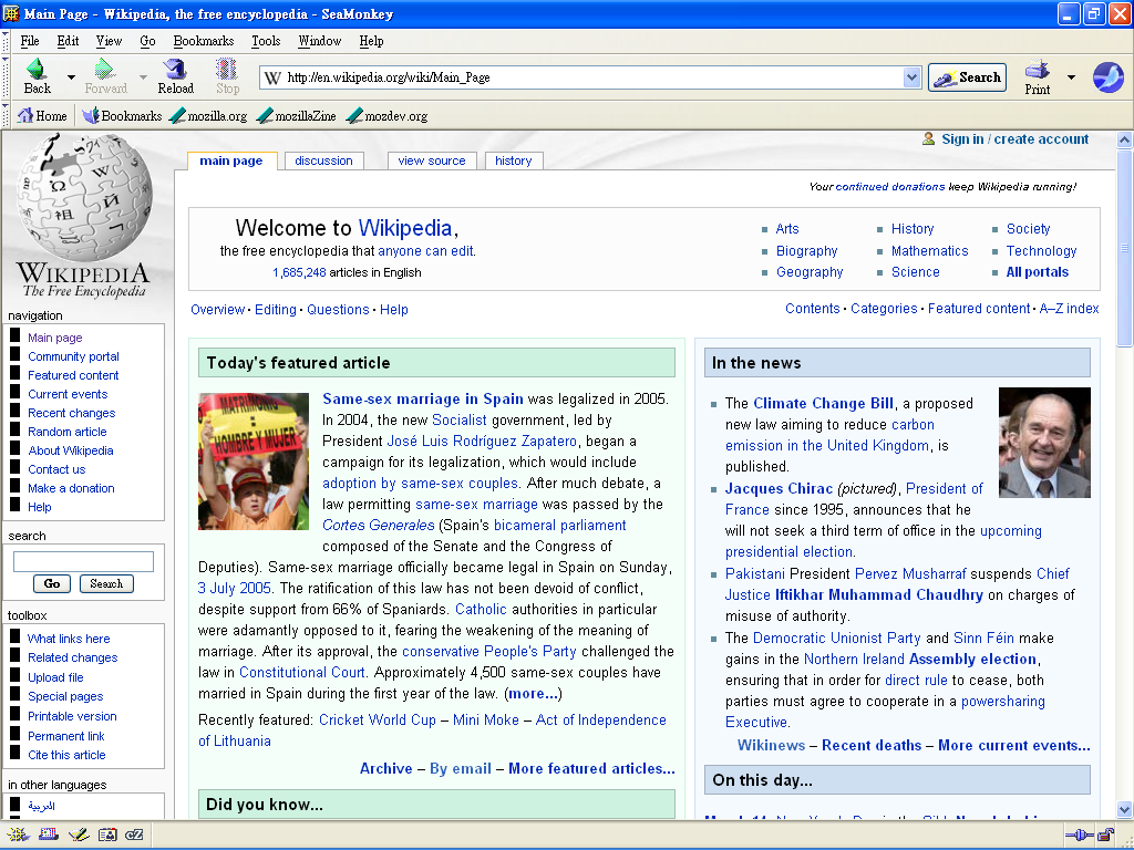 SeaMonkey 1.1.1 screenshot with English Wikipedia